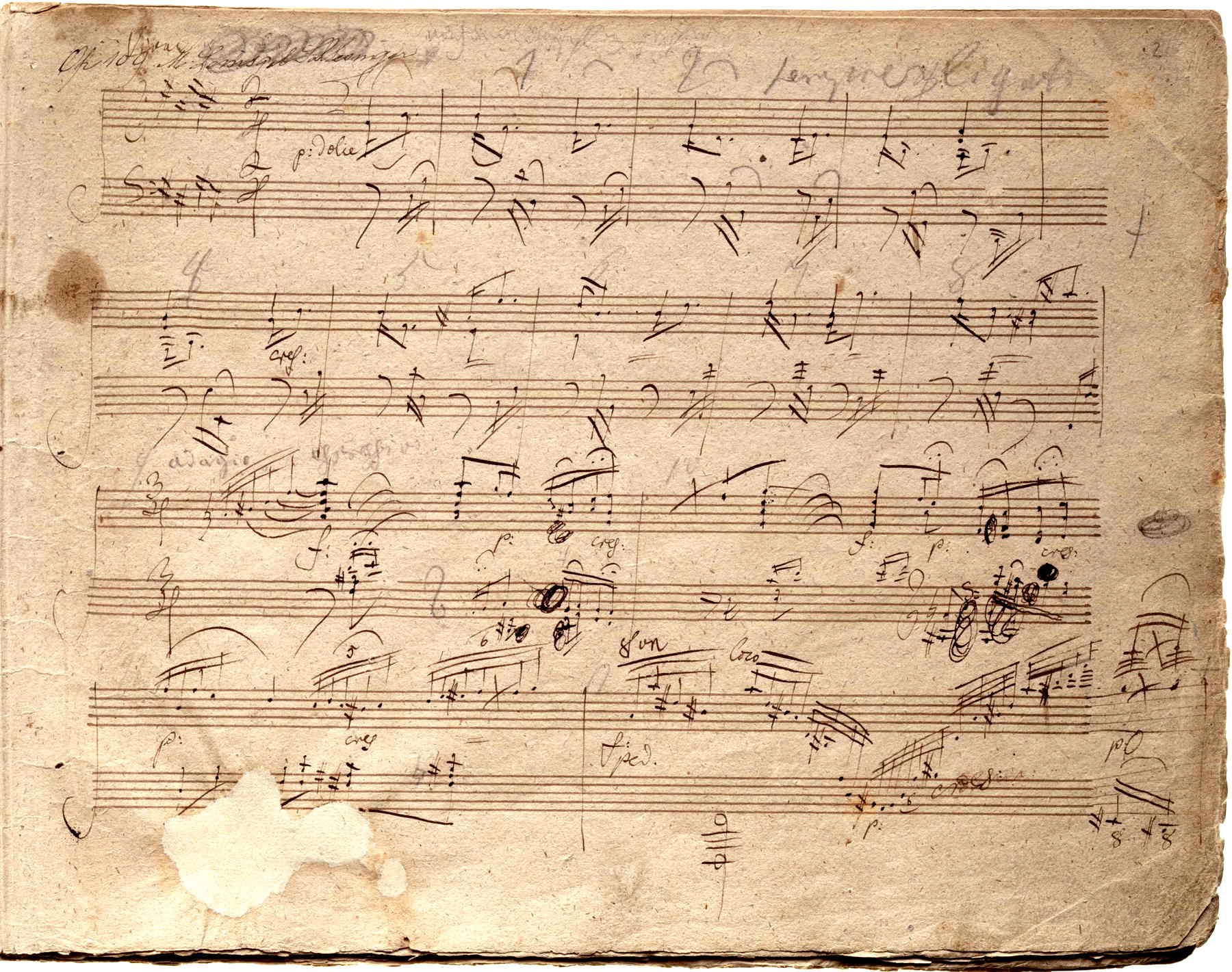 Autograph of the first page of the first movement (Vivace, Ma Non Troppo) of Beethovens Piano Sonata No. 30 Op. 109, composed in 1820.